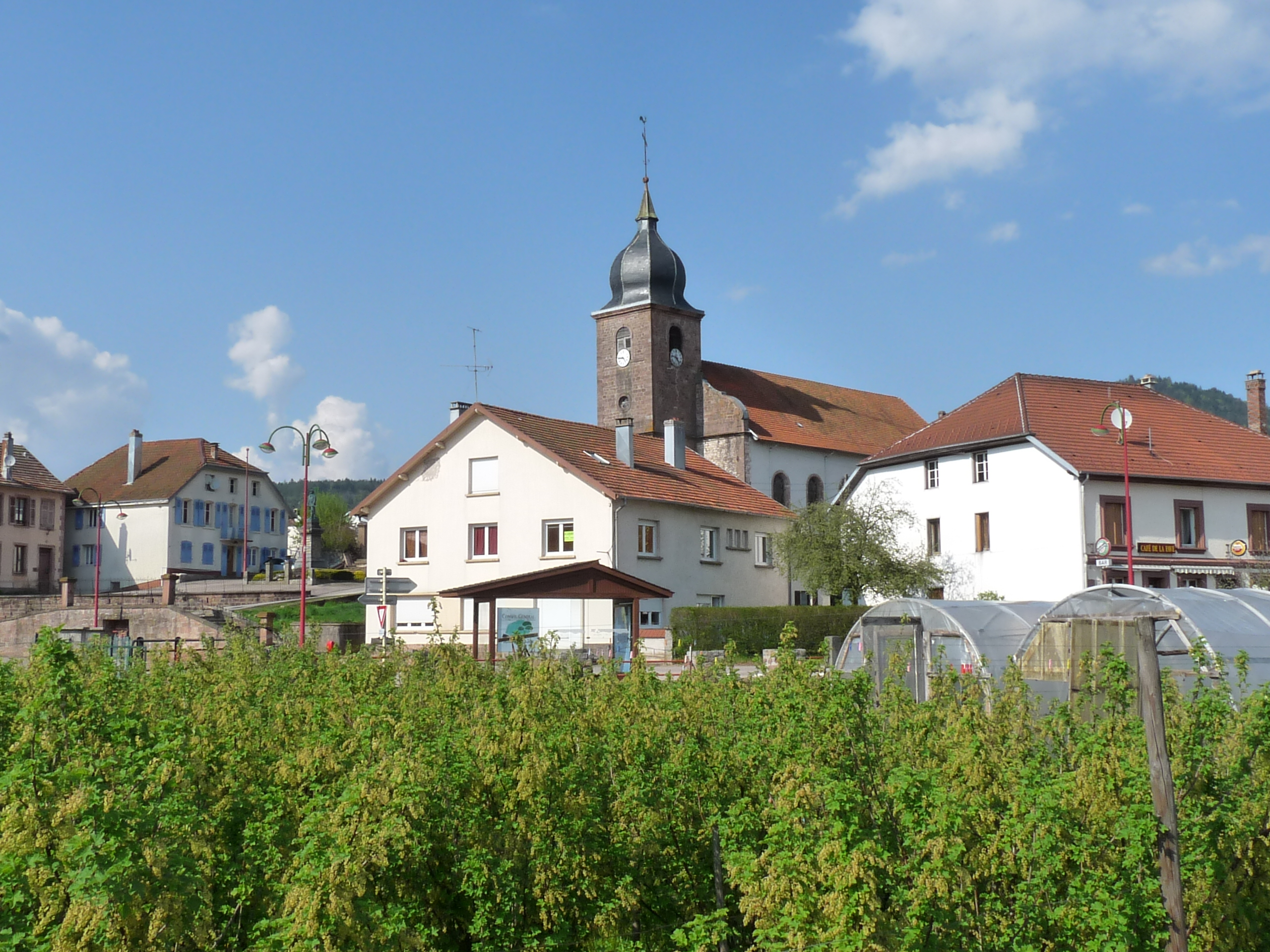 Colroy-la-Grande (Vosges)